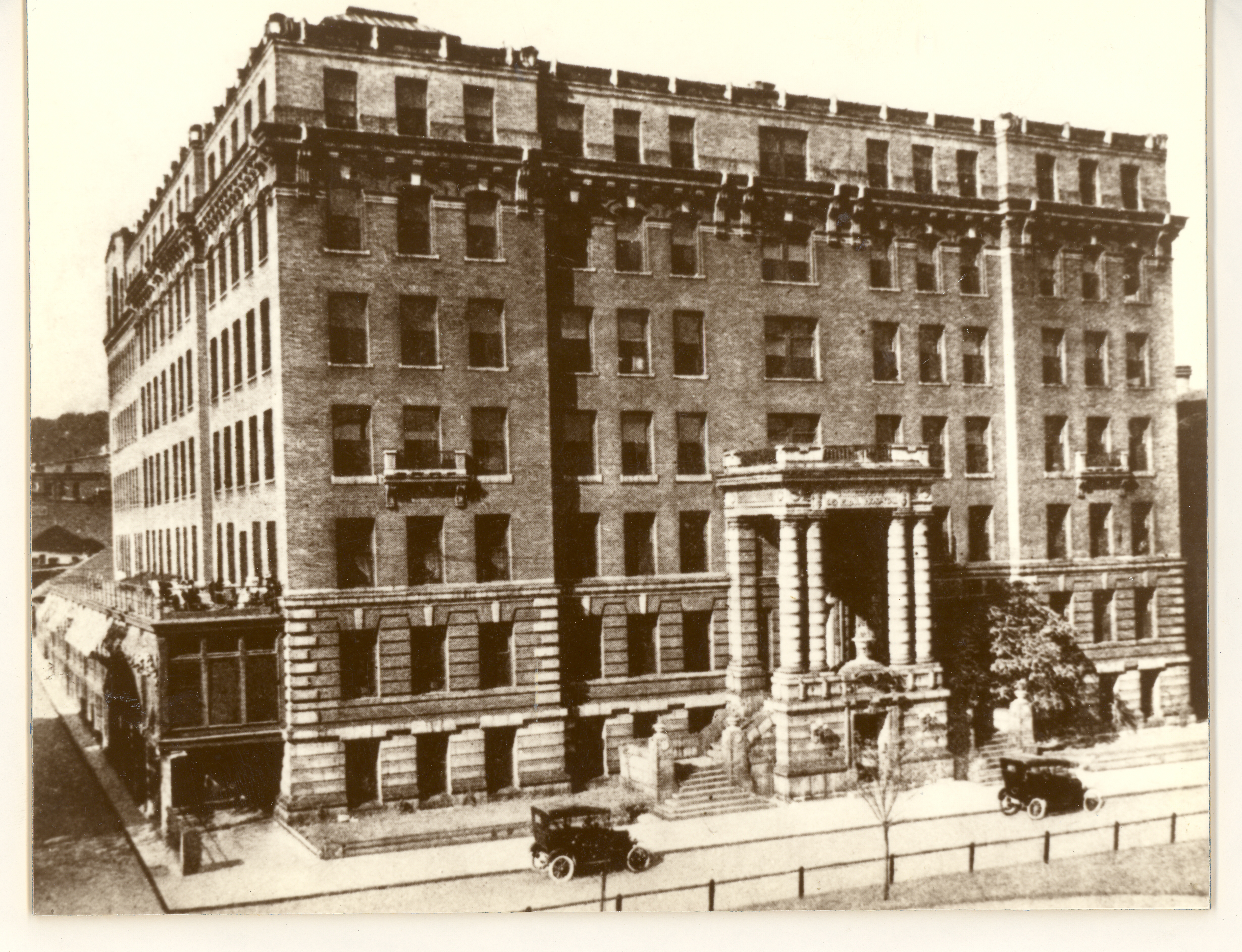 old Allegheny General Hospital, Stockton Avenue location, @1905. Age of photo and date of initial publication places the image in the public domain.